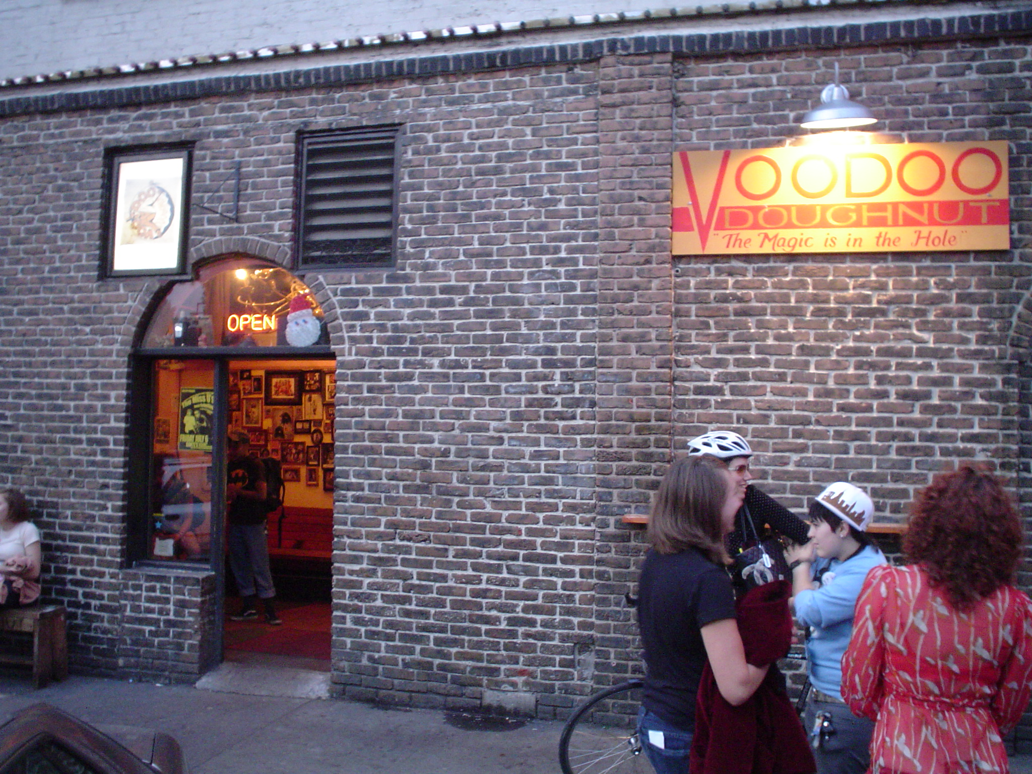 Voodoo Doughnut - an independent doughnut shop based in Portland, Oregon USA. If used elsewhere, please attribute me as original photographer. -- User:Andrew Parodi 01:31, 29 June 2007 (UTC)